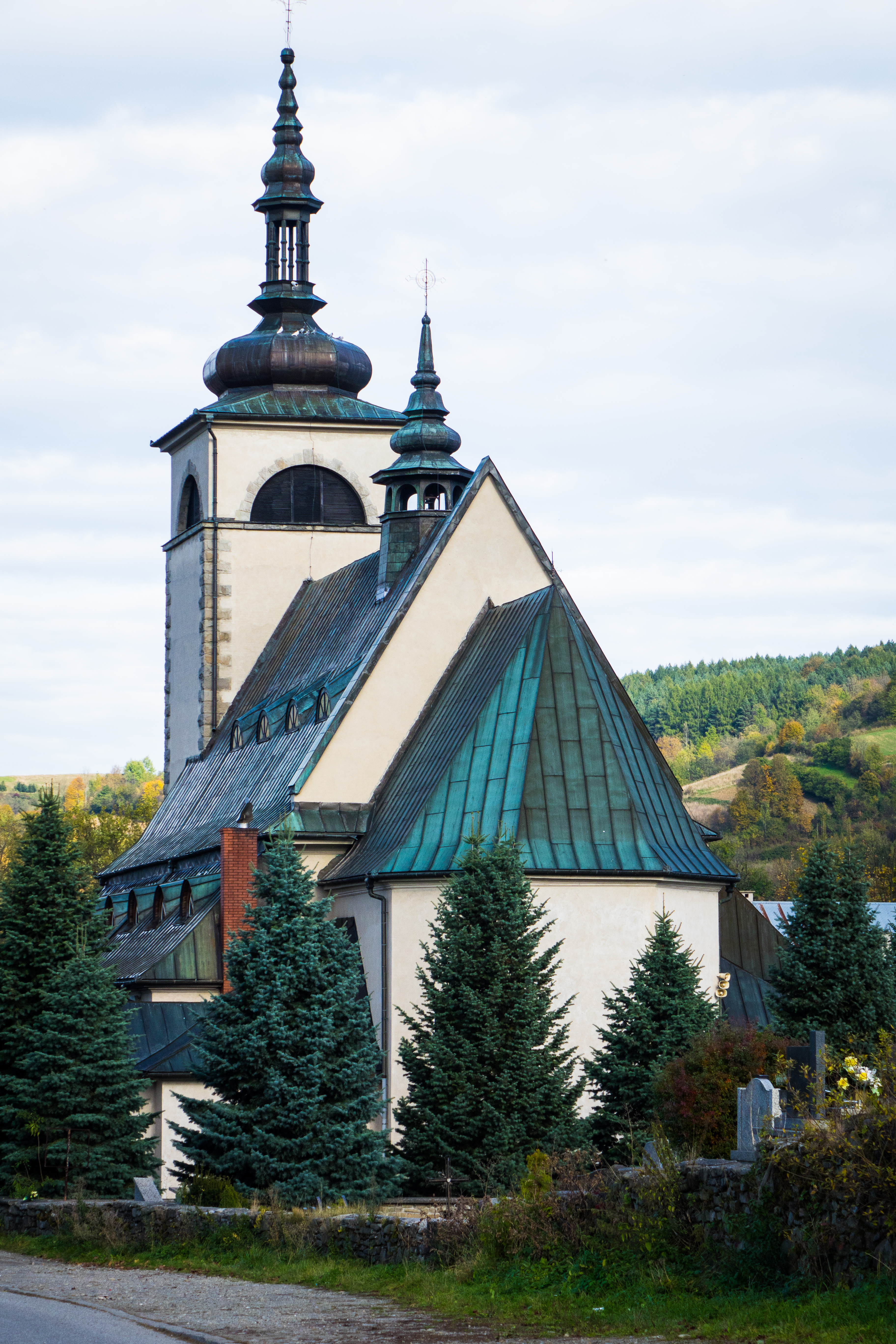 Church of the Transfiguration and the Visitation of Virgin Mary in Kamienica (pow. limanowski)